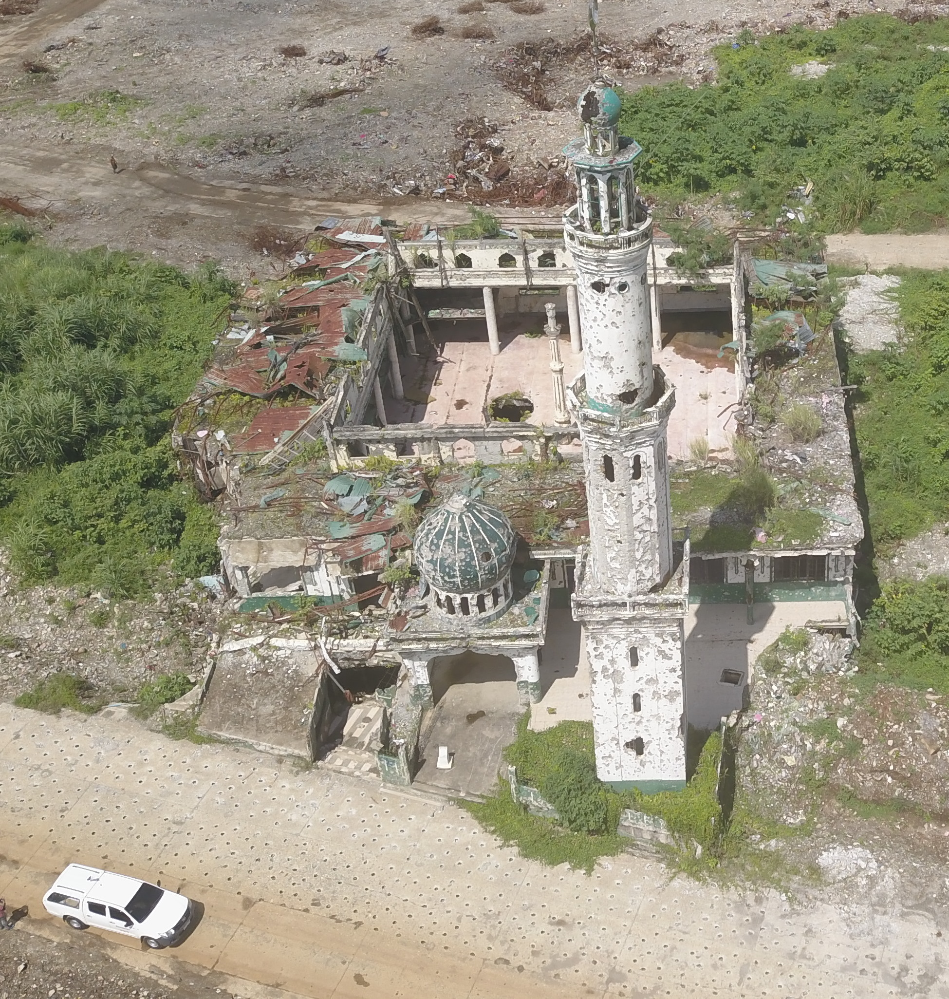 Drone shot of the damaged Dansalan Bato Mosque showing its unsound structure caused by the Marawi siege in 2017. (PIA ICIC)